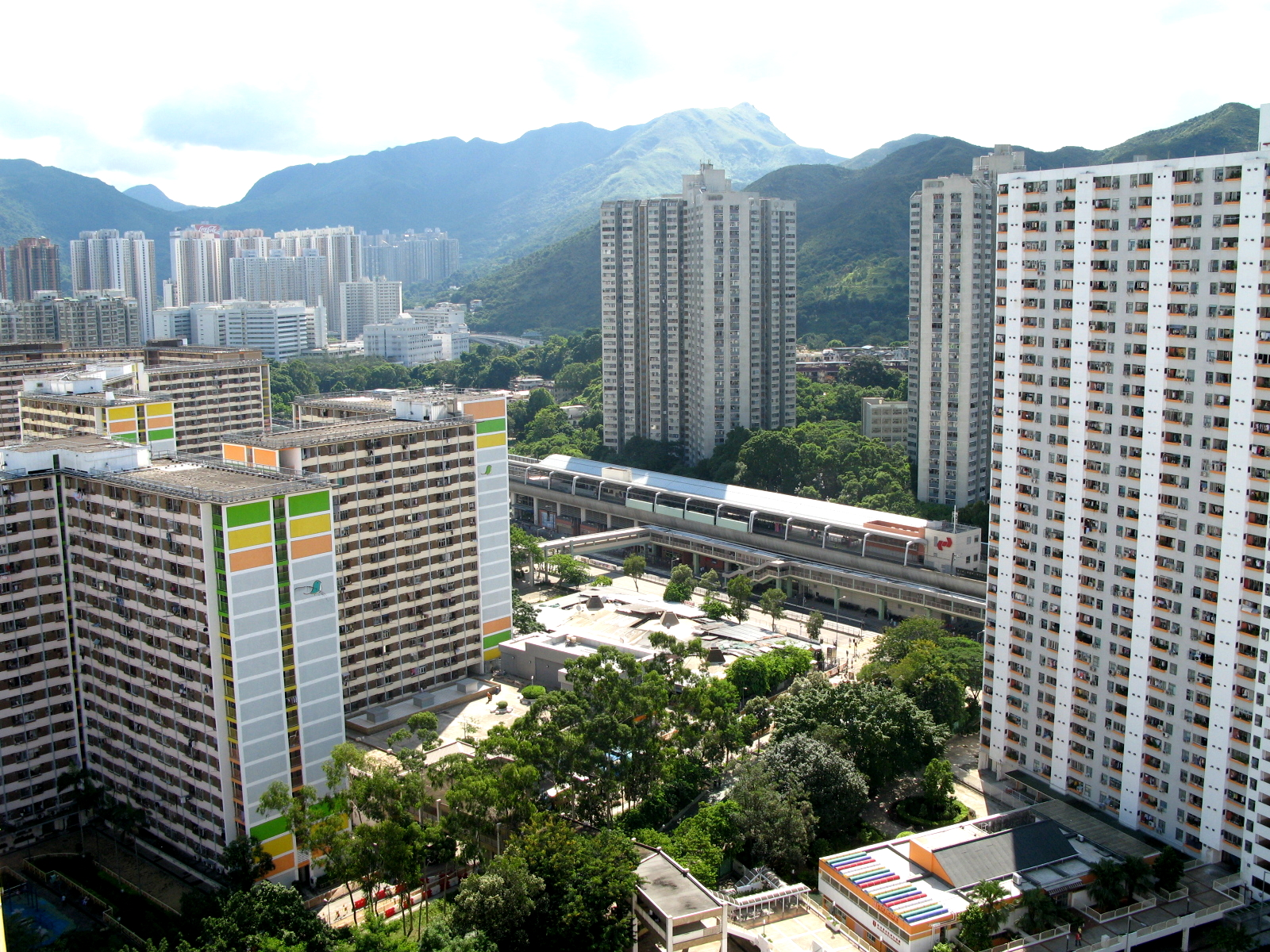 Sha Tin Wai Public Housing